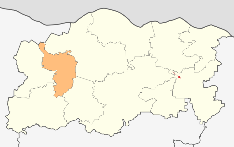 Map of Iskar municipality, Pleven Province